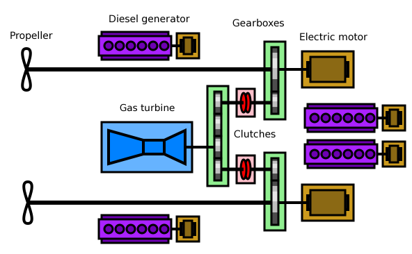 Working principle of marine CODLAG systems. Note that in reality, the clutches would be placed somewhere else (e.g. into the gearboxes). (Own work).